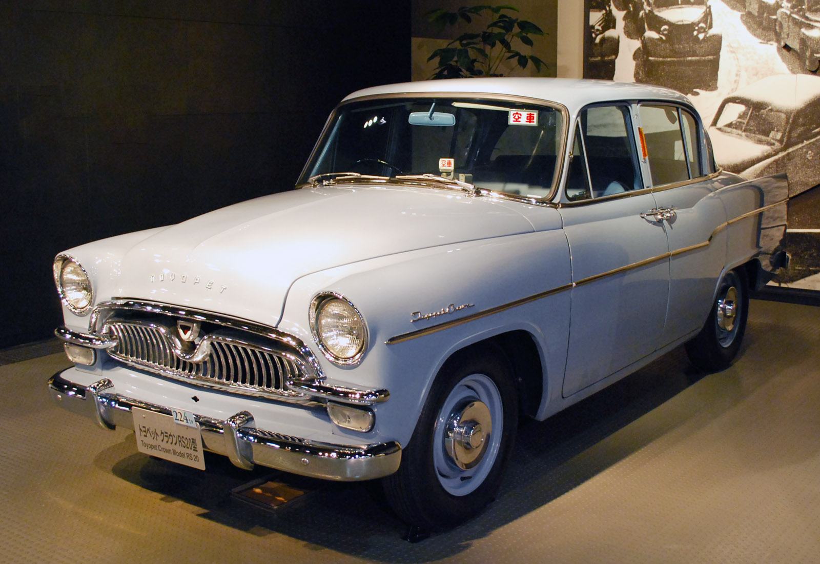 1st generation Toyopet Crown Model RS20 (1958/10 - 1962/9)